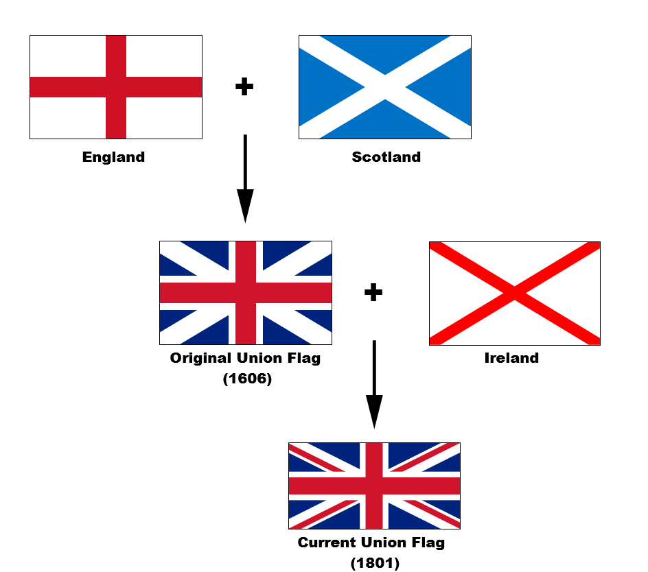 Development of the Union Jack. Note that the rectangle labeled "Ireland" has never been the flag of Ireland, and there is some controversy over whether it's an authentic Irish symbol at all (the red saltire was incorporated into the Union Jack from the insignia of the royal Order of St. Patrick, founded 1783).